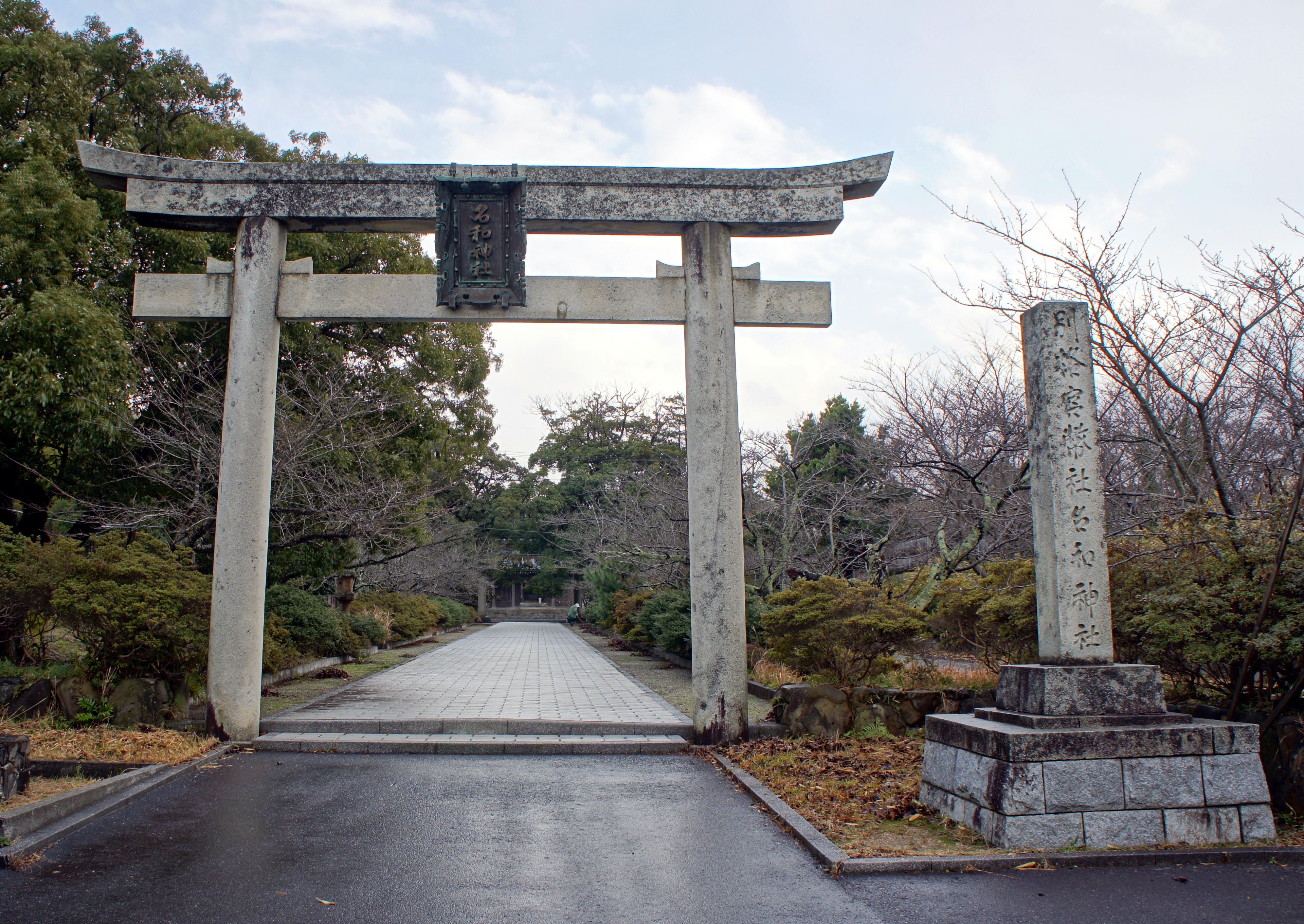 Torii of Nawa-jinja (Daisen, Tottori Prefecture, Japan)